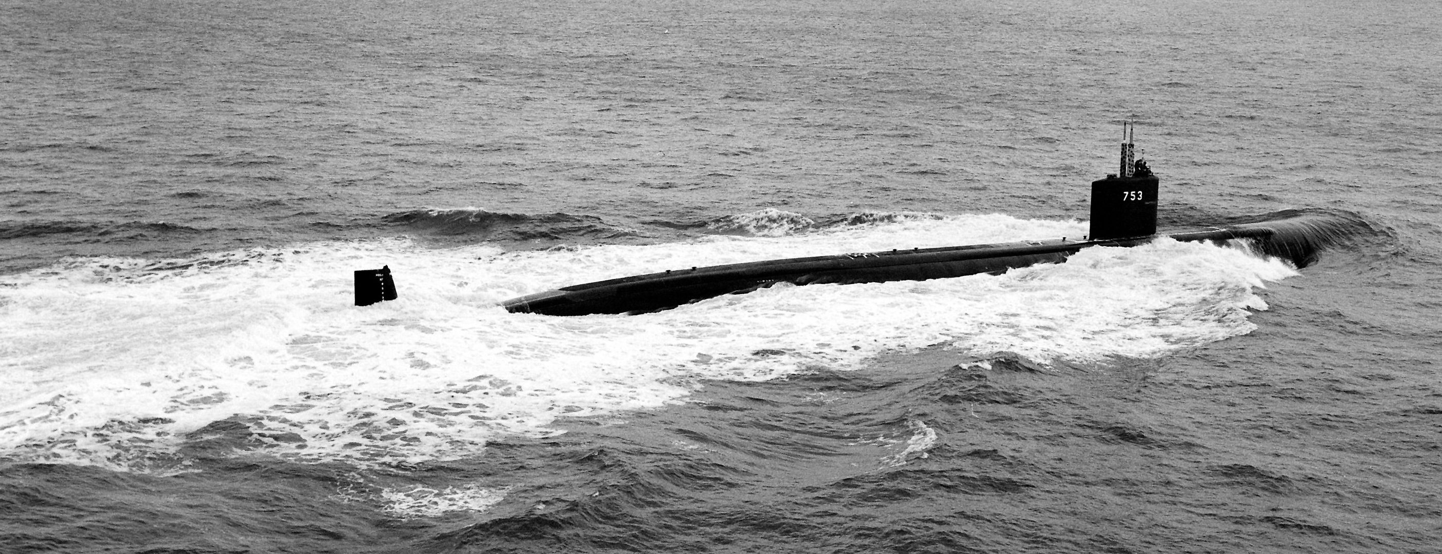 A starboard view of the nuclear-powered attack submarine ALBANY (SSN 753) underway for sea trials prior to its commissioning.